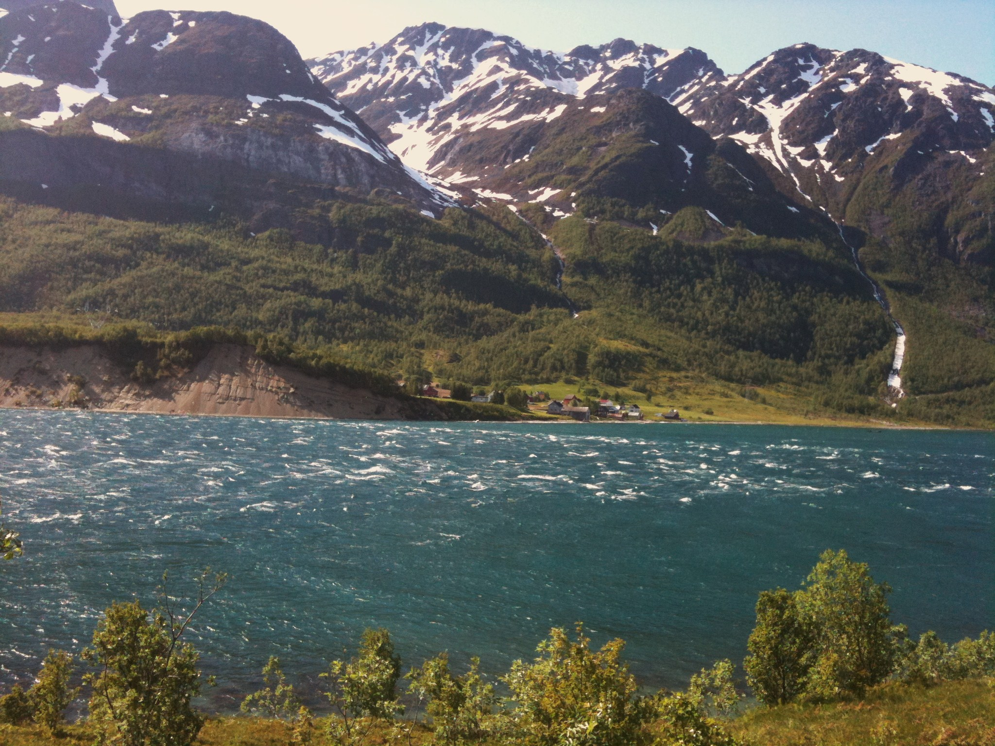 Storstraumen, a tidal current in Ullsfjorden, near Tromsø, Norway Norsk (bokmål): Storstraumen, en tidevannsstrøm i Ullsfjorden i Tromsø kommune